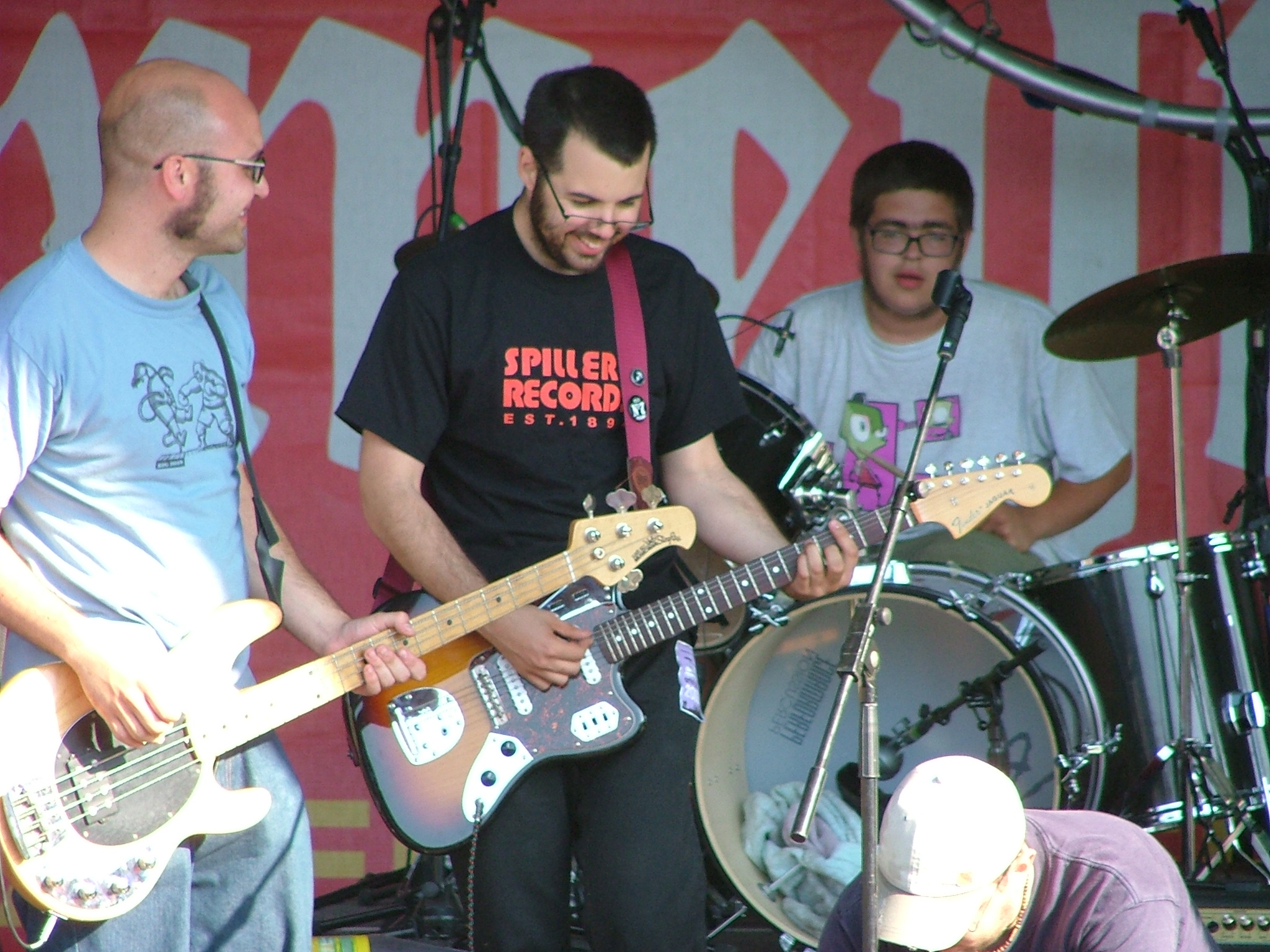 Steveless plays Ashton Court Festival 2005